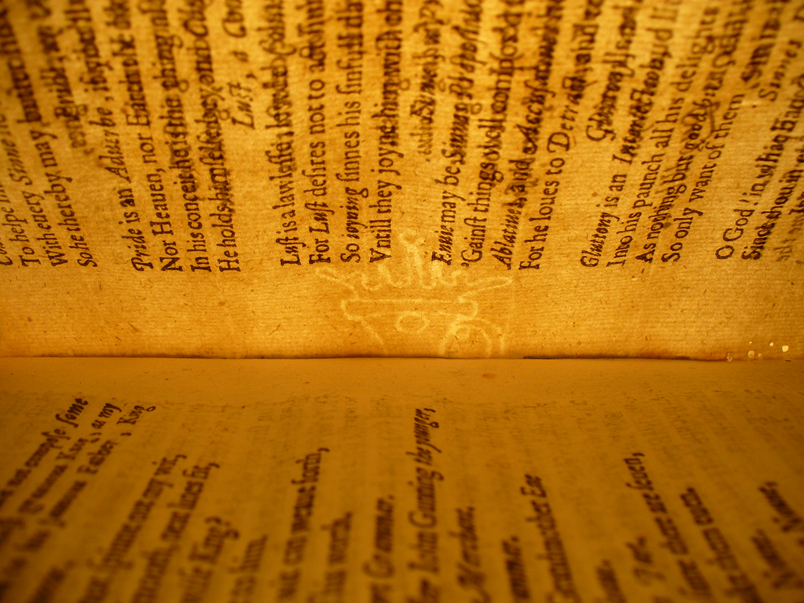 This is a photograph of a page of Quodlibets by Robert Hayman illuminated from the back in order to demonstrate the watermark.